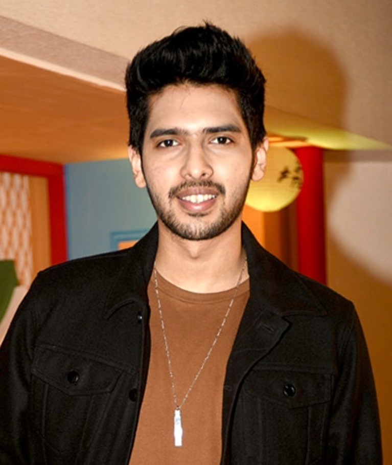 Armaan at Diwali bash of Sachiin J Joshi